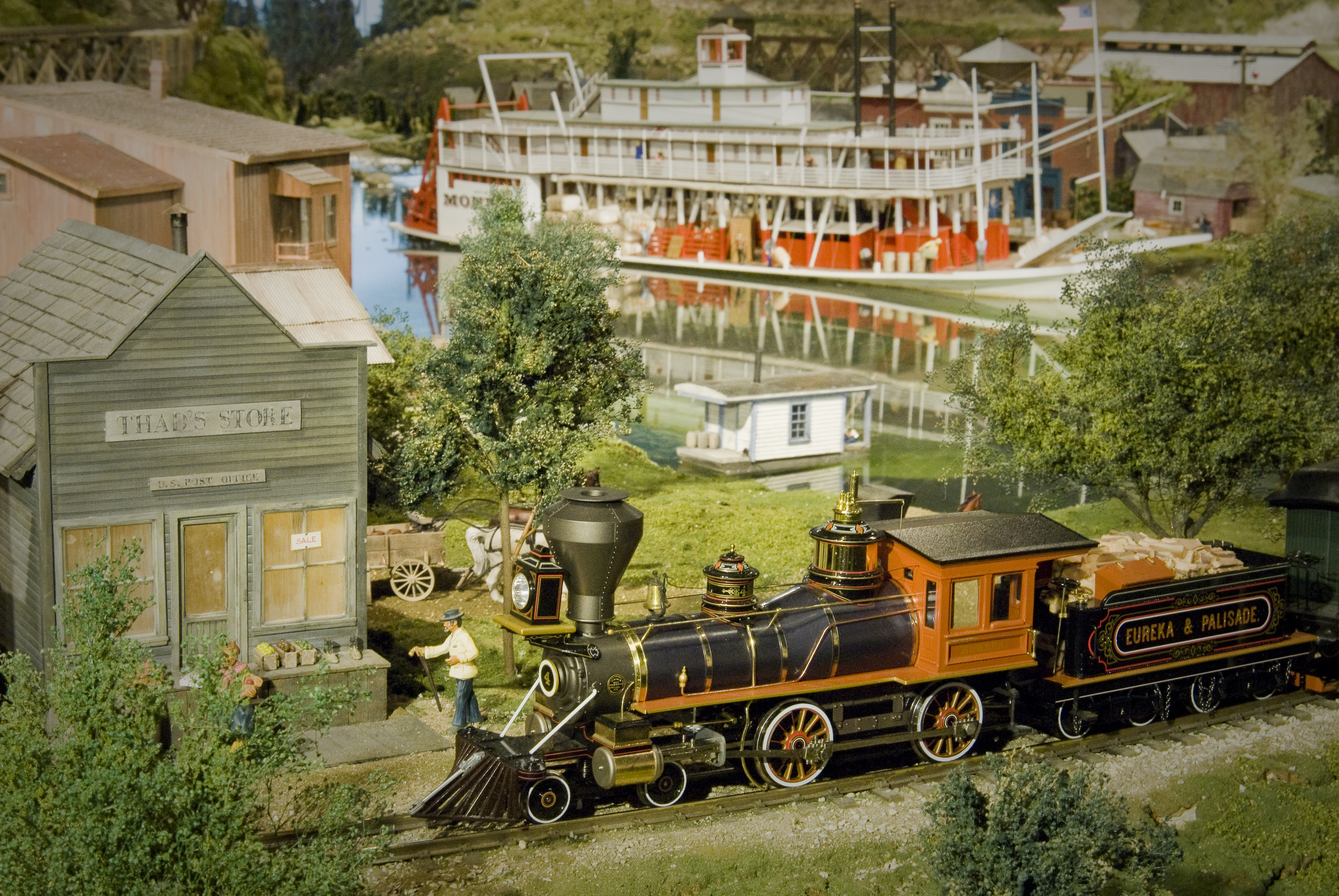 A train passes through a classic railroading neighborhood in the Early Era section of EnterTRAINment Junction.